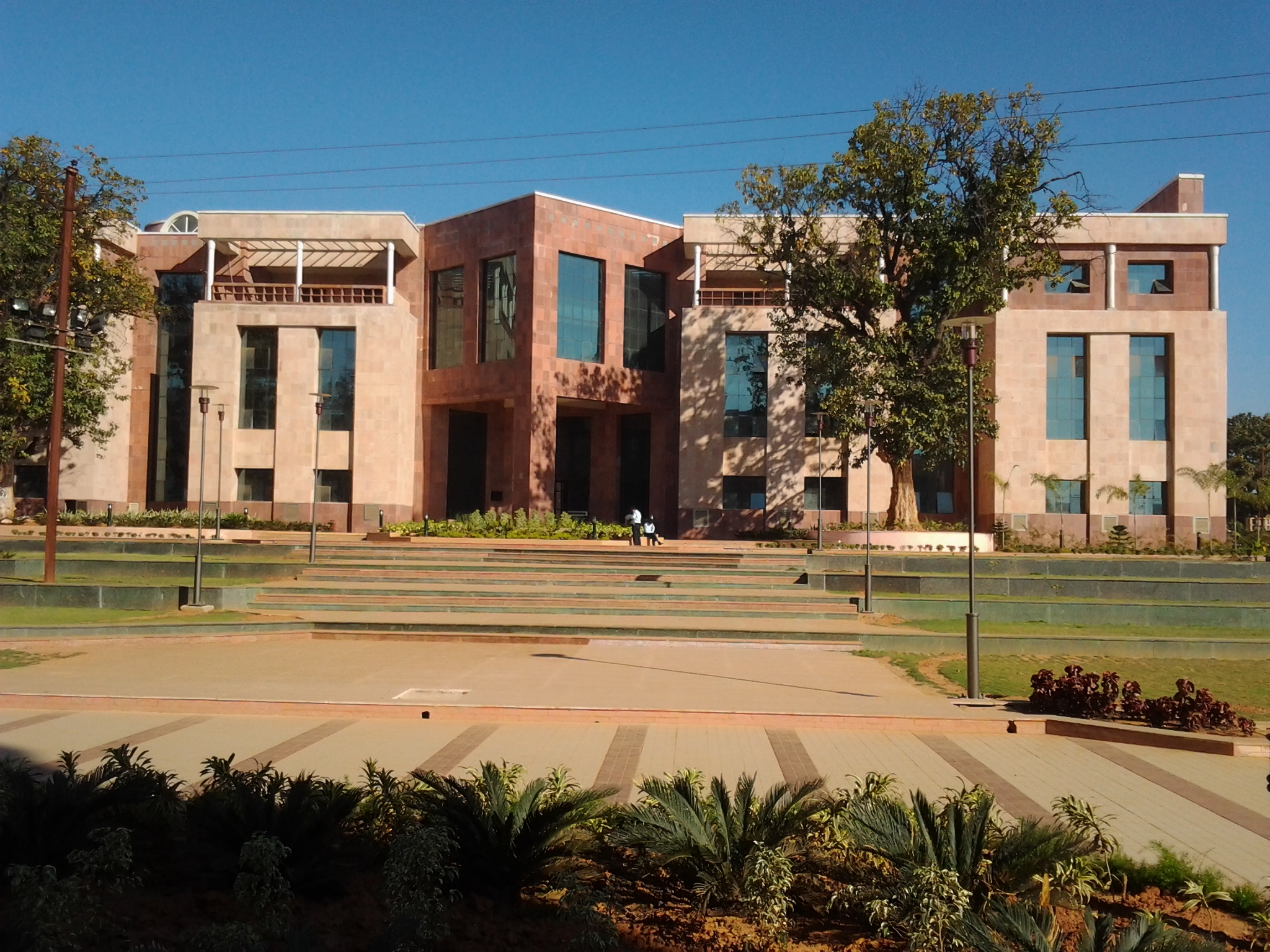 Biotechnology and School of Management building